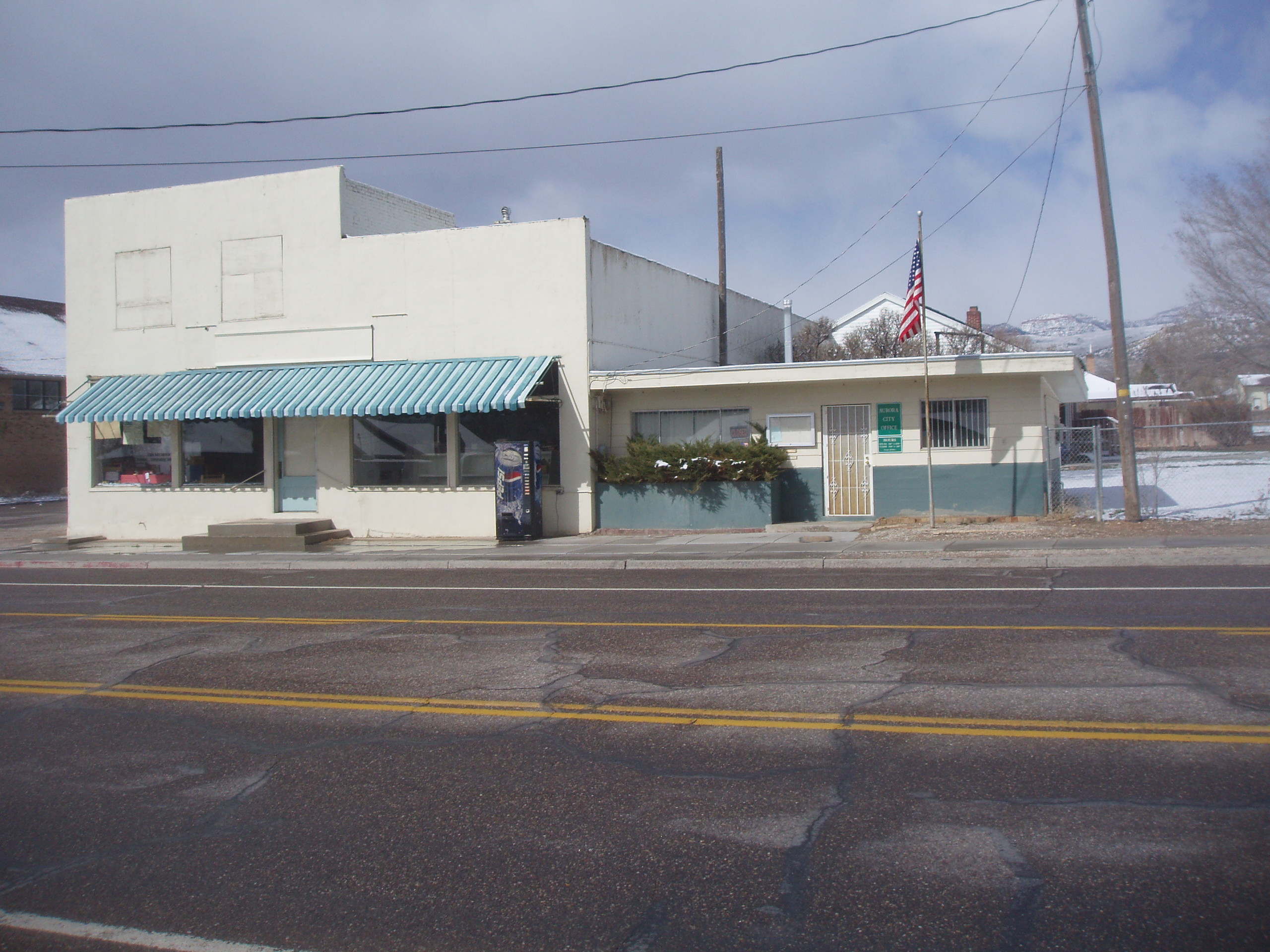 The town office of Aurora, Utah, United States.